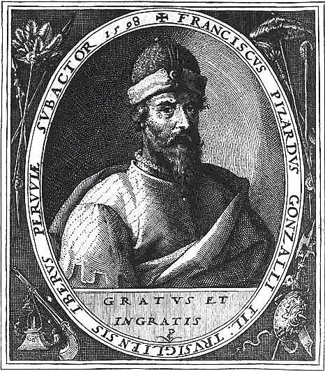 Portrait of Francisco Pizarro (c.1471 - 1541) )